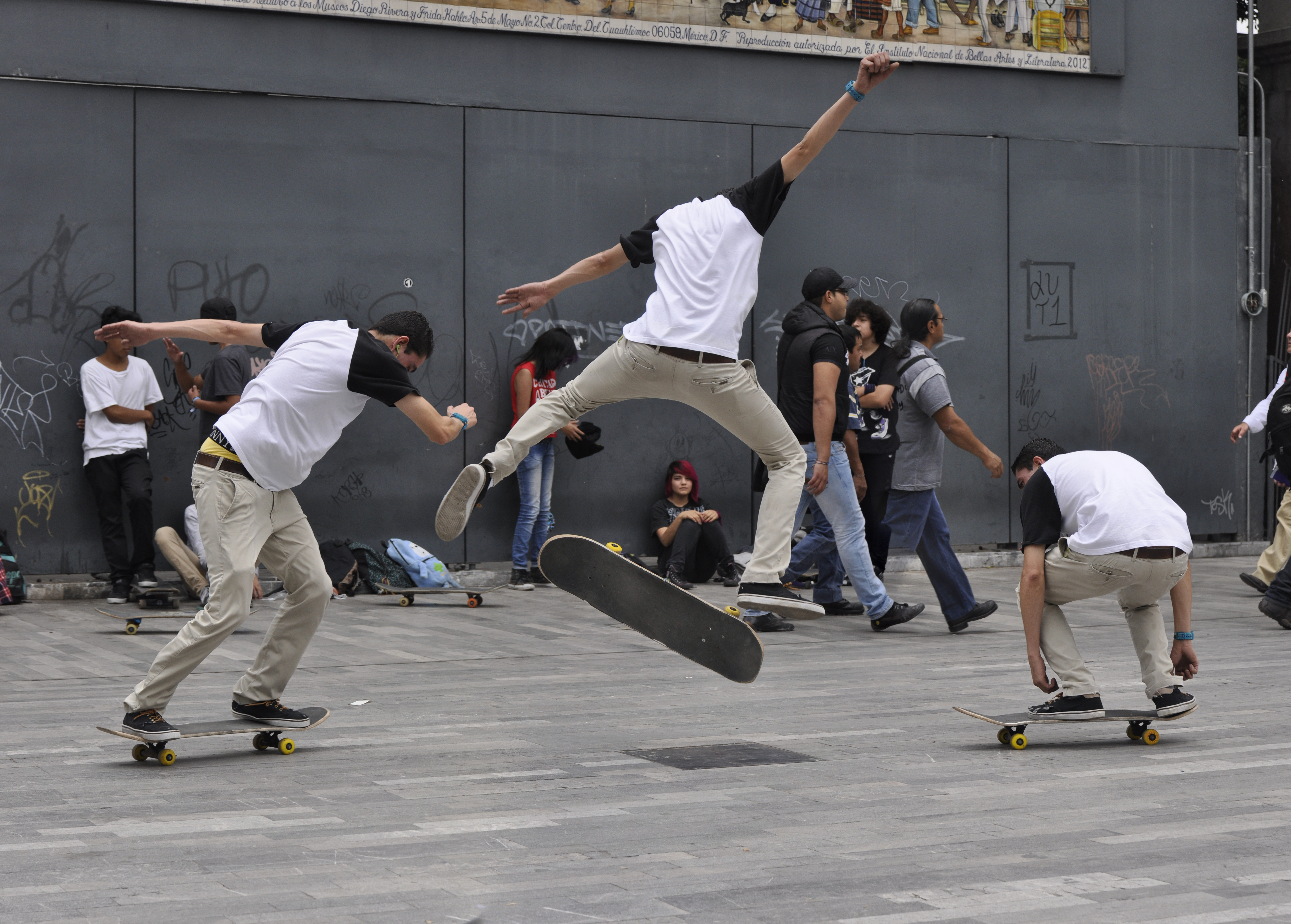 Skateboarding at Calle Dr Mora, just west of Alameda Central in Mexico City: Flip trick.